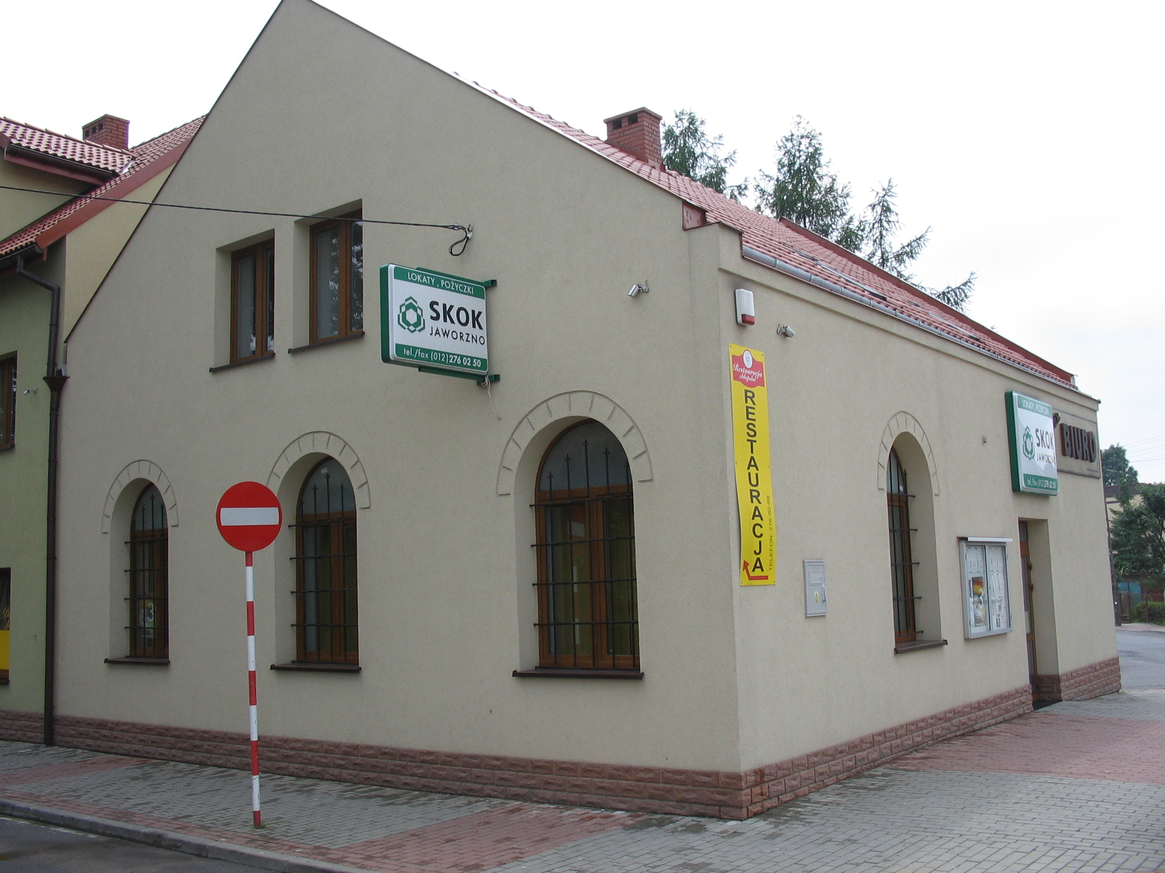 Synagogue in Skawina